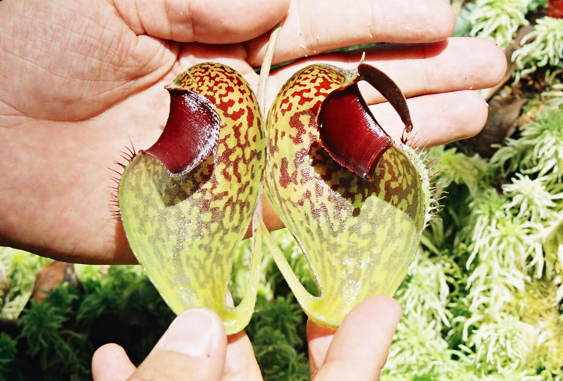 Nepenthes aristolochioides